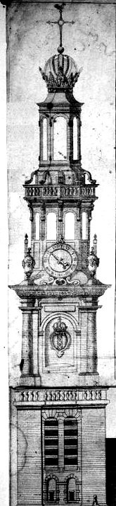 Ontwerp voor Westertoren toegeschreven aan Hendrick de Keyser